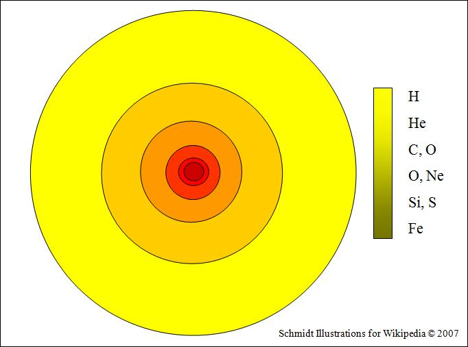 An image of the onion rings of atoms in a star at it's final destination